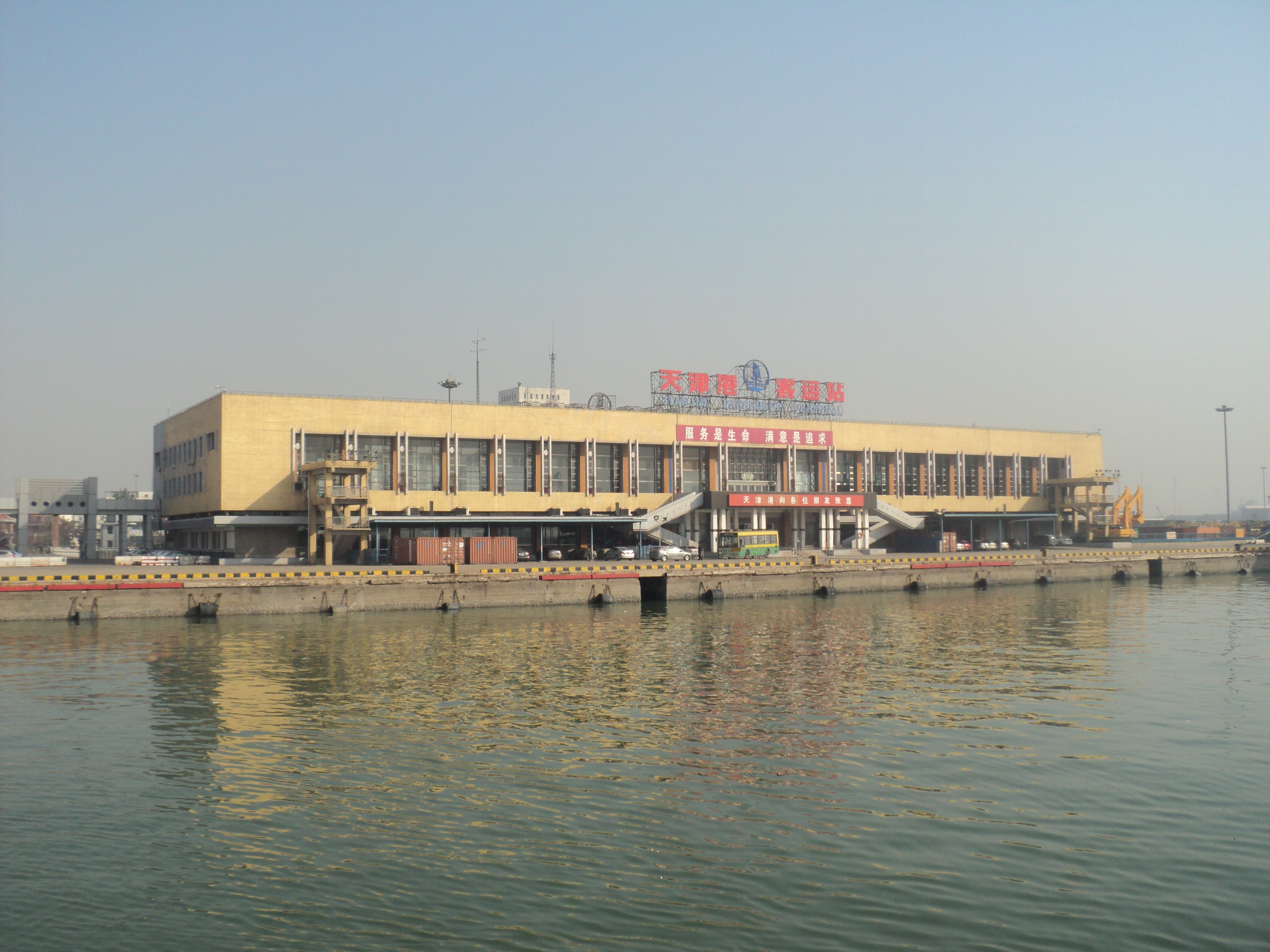 Tianjin Port Passenger Terminal has lost most of its business to the Cruise Homeport, but it is still the terminal for various international and local ferry routes